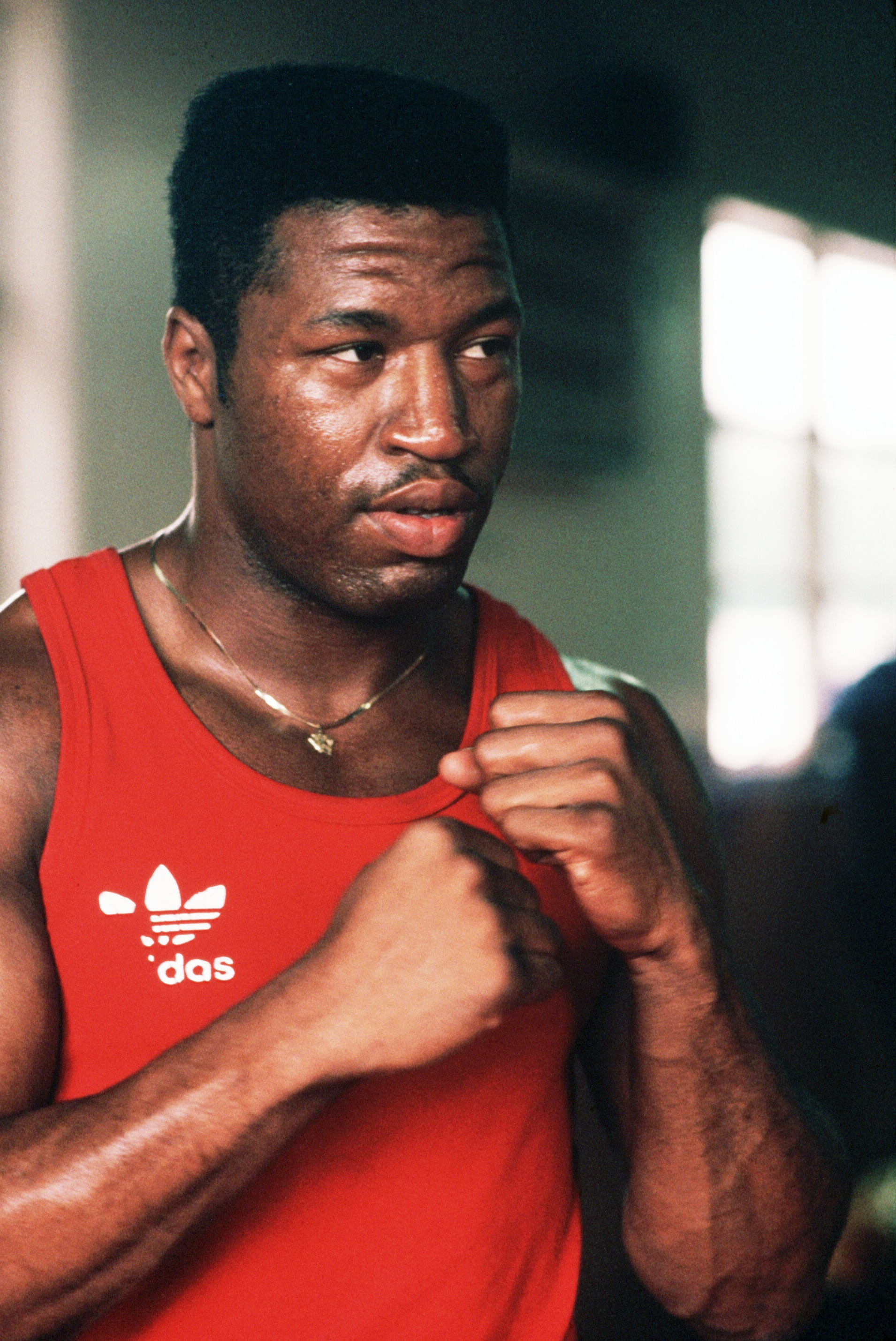 Ray Mercer demonstrates his boxing stance while training during the Summer Games of the 24th Olympiad in Seoul.